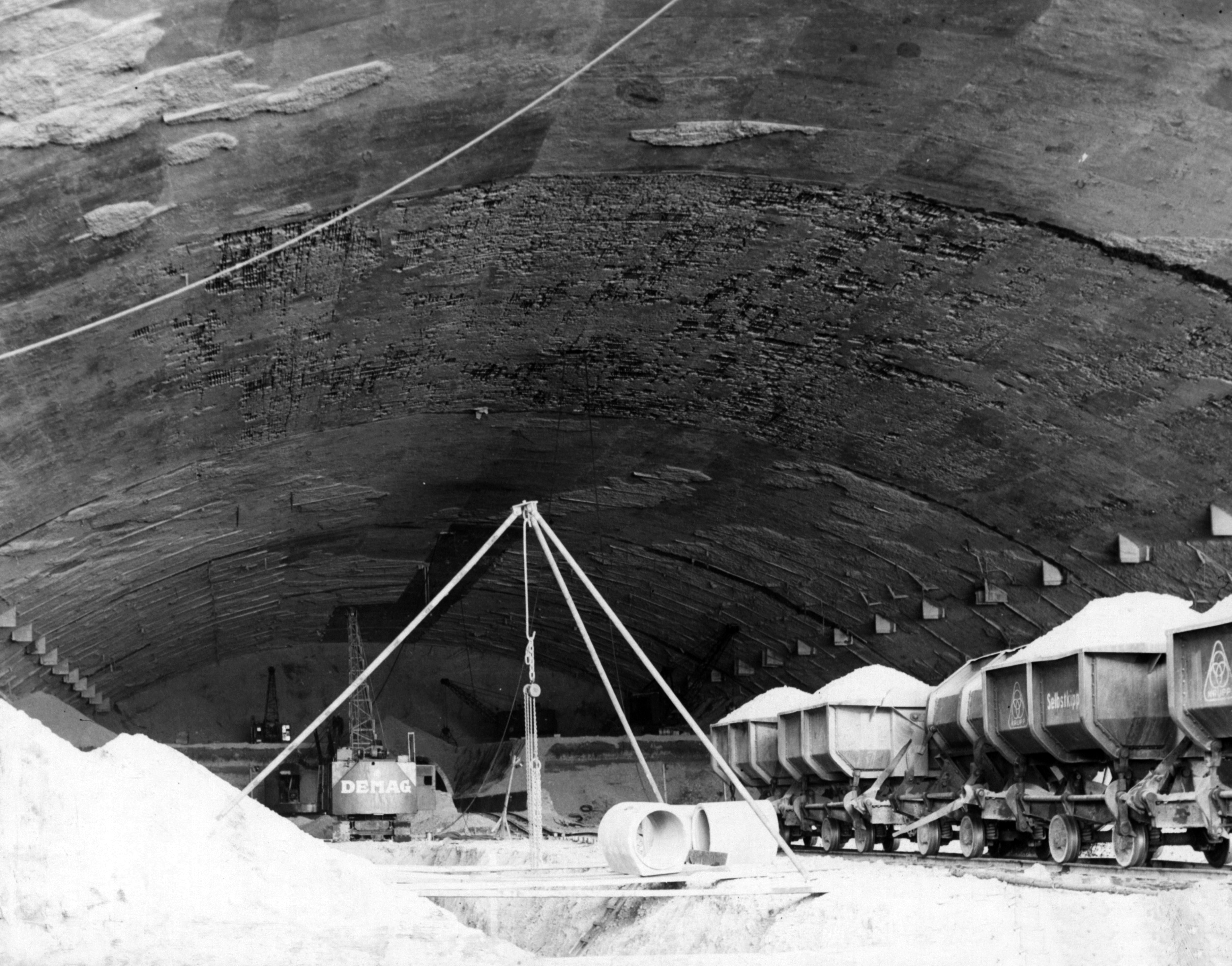 Internal view of Weingut I as it was found by the US Army in May 1945. NARA 342-FH-3A19977-C57936ACt